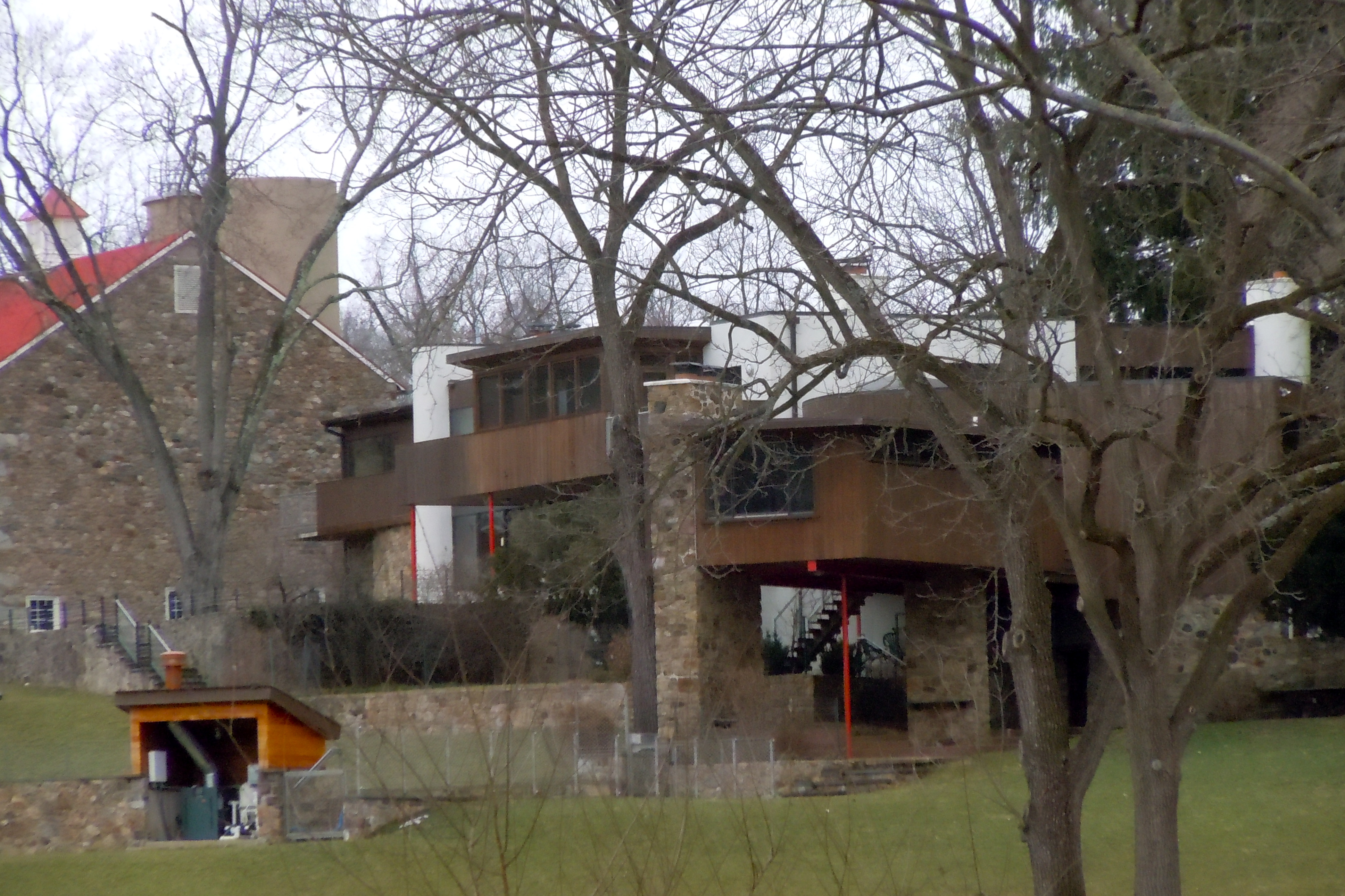 Oskar G. Stonorov House on the NRHP since December 6, 1975. Located southwest of Phoenixville, PA on Pickering Road, Charlestown Township, Chester County, Pennsylvania. Built by modern architect (starting 1938) around the stone walls and foundation of a much older (1700s?) house on the property. Also a contributing property to the Middle Pickering Rural Historic District on the NRHP.